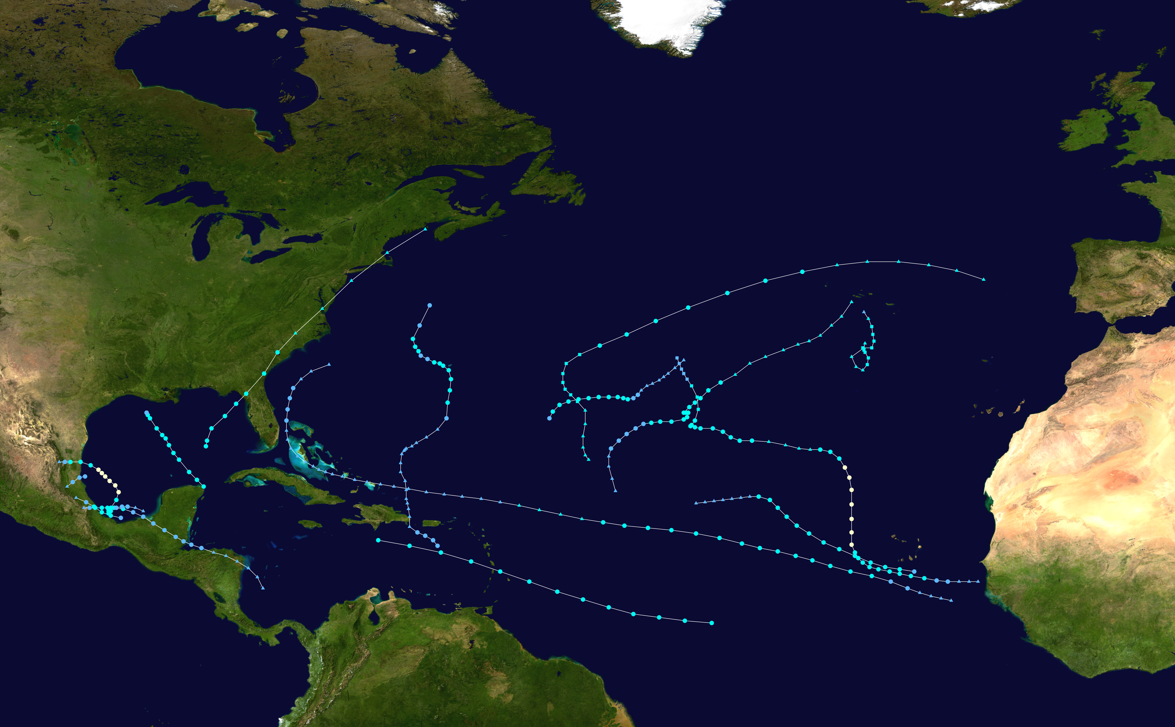 This map shows the tracks of all tropical cyclones in the 2013 Atlantic hurricane season. The points show the location of each storm at 6-hour intervals. The colour represents the storm's maximum sustained wind speeds as classified in the Saffir-Simpson Hurricane Scale (see below), and the shape of the data points represent the type of the storm. Saffir–Simpson scale Tropical depression≤38 mph≤62 km/h Category 3111–129 mph178–208 km/h Tropical storm39–73 mph63–118 km/h Category 4130–156 mph209–251 km/h Category 174–95 mph119–153 km/h Category 5≥157 mph≥252 km/h Category 296–110 mph154–177 km/h Unknown Storm type Tropical cyclone Subtropical cyclone Extratropical cyclone / Remnant low / Tropical disturbance / Monsoon depression